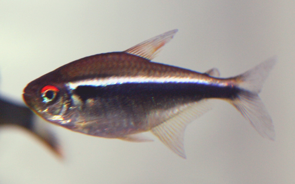 taken by me user debivort November 2006